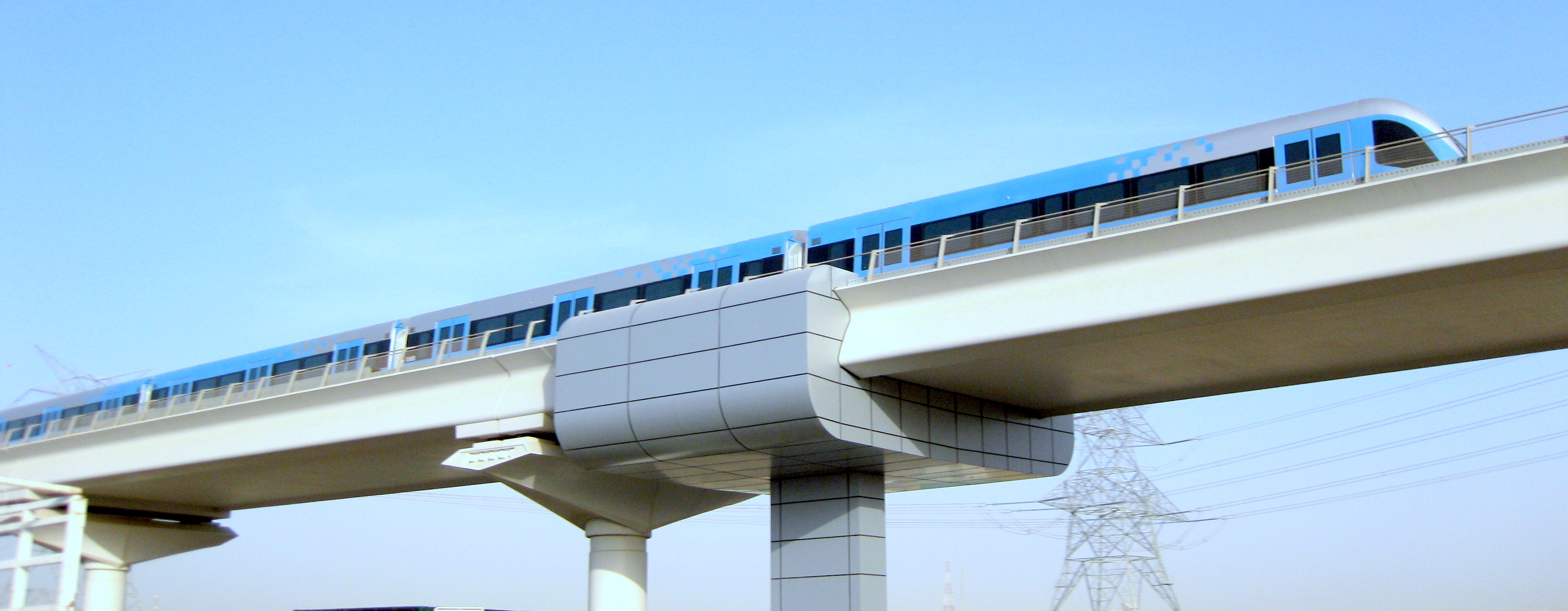 Dubai Metro Project